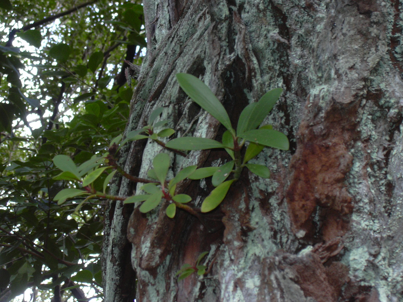 Clusia rosea (germinating on Eucalyptus). Location: Maui, Haiku